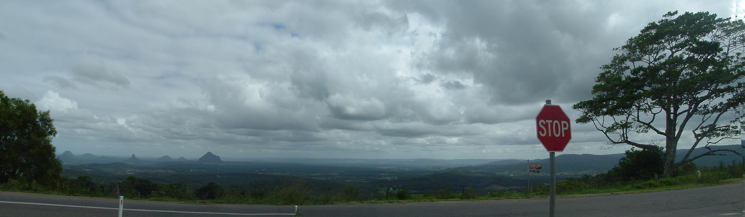 Glasshouse Mountains viewed from Mary Cairncross Reserve.